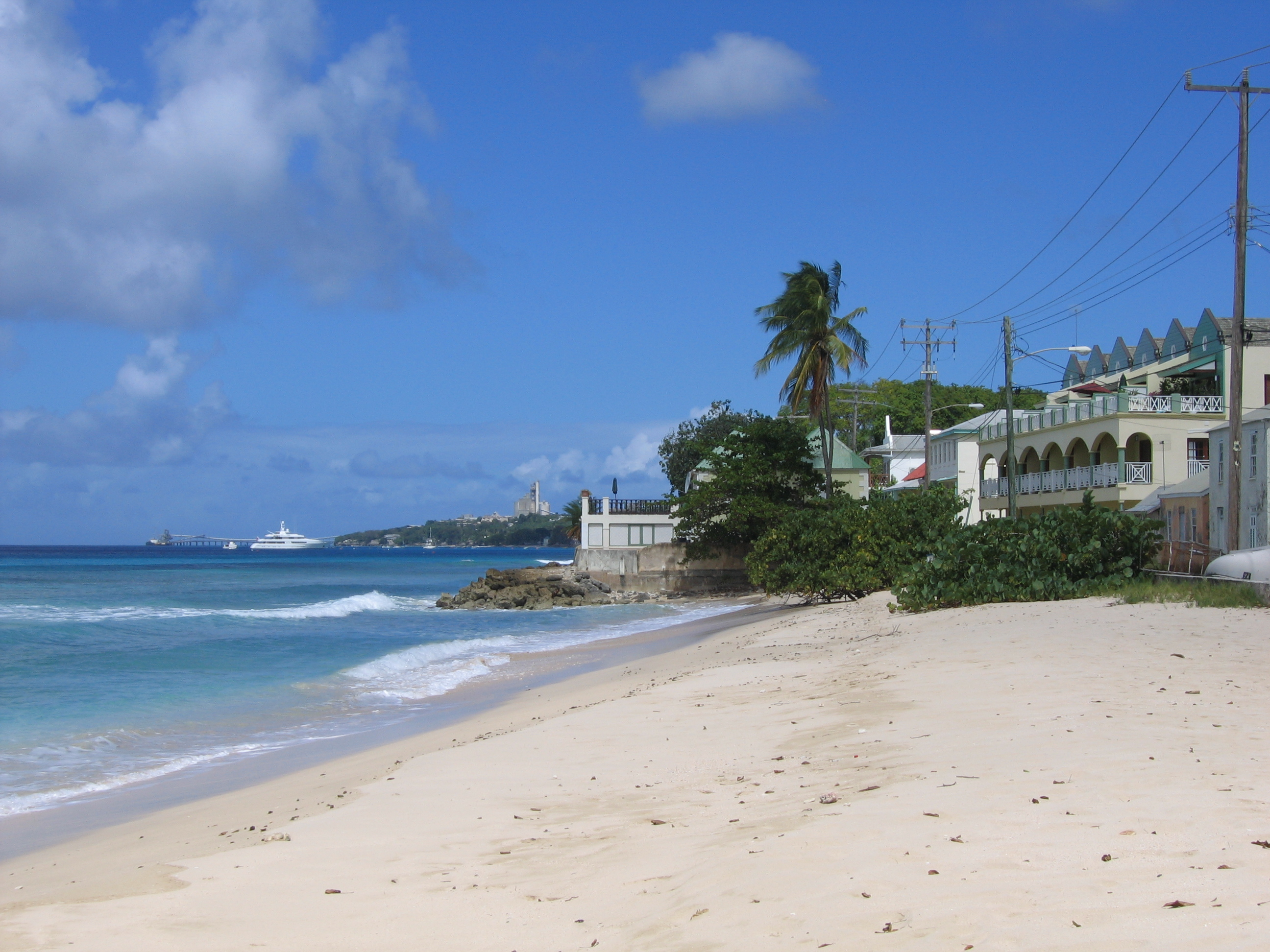 Beach in Speightstown, Saint Peter Parish, Barbados.